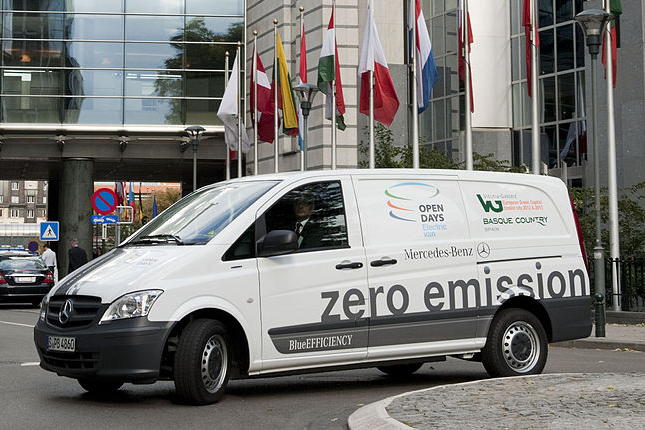 Trimmed version of the original image showing the Mercedes-Benz Vito E-Cell all-electric van